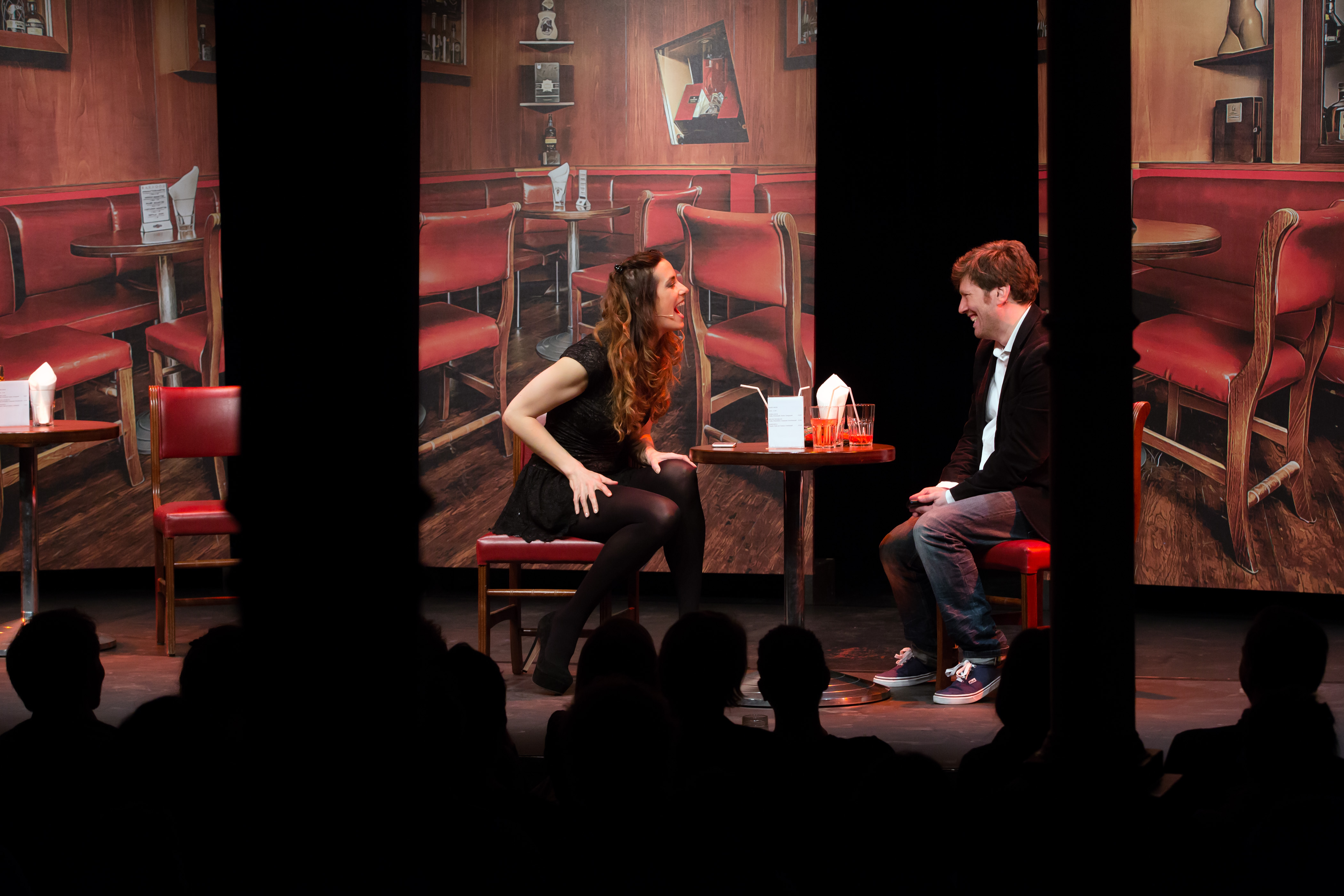 Premiere of Match Me If You Can with Nina Hartmann and O. Lendl at Metropol in Vienna, Austria.